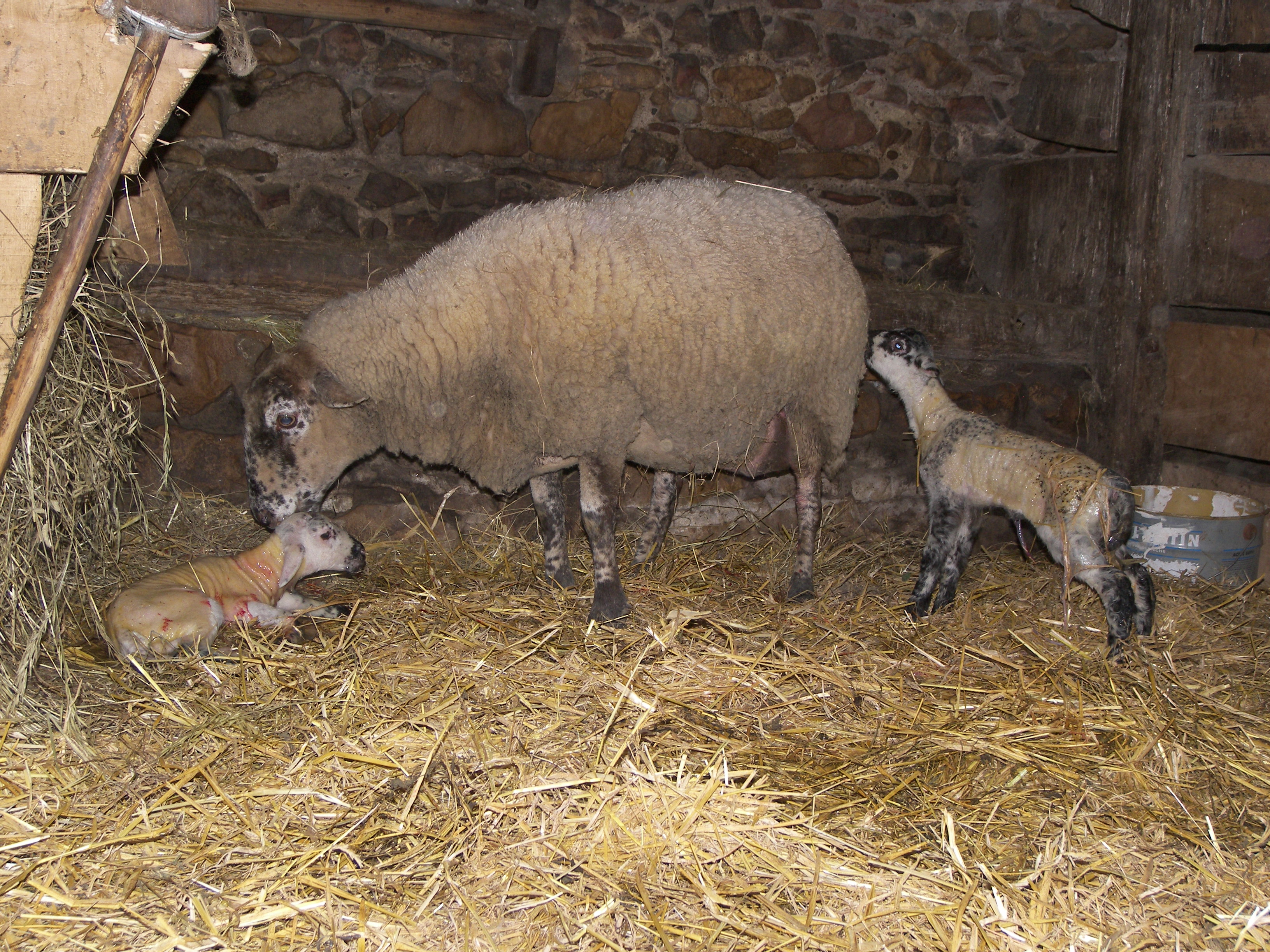 Lambing